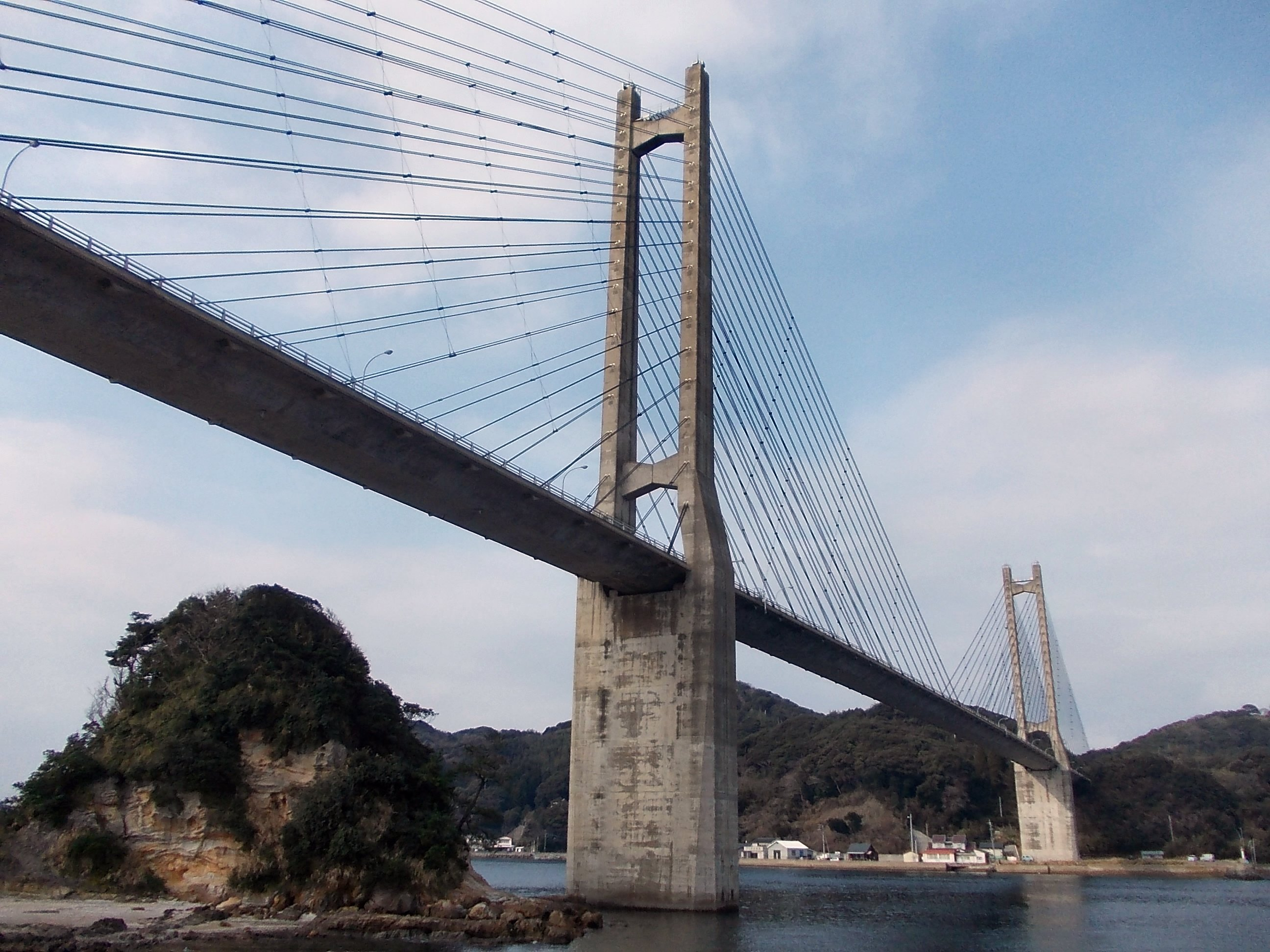 Yobuko Bridge and Benten Island.